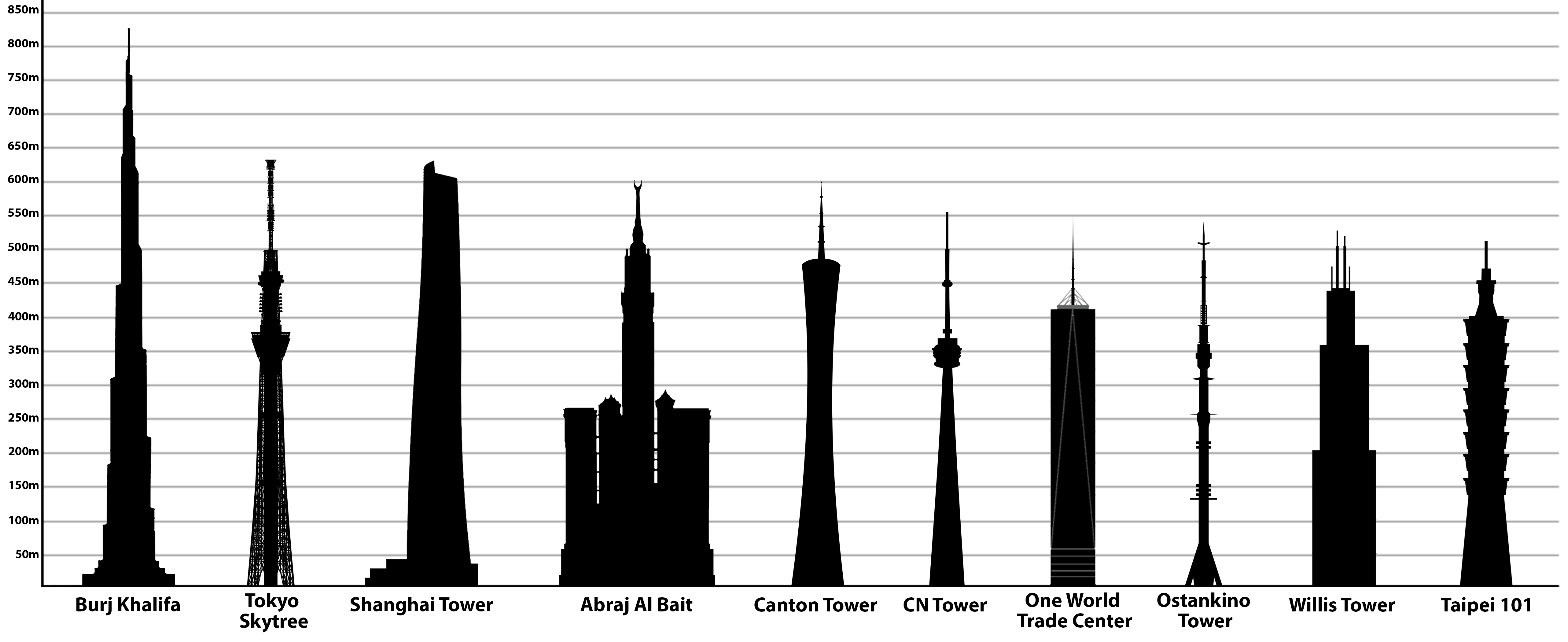 Tallest freestanding structures in the world; Used data from .